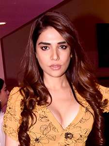 Anjum Fakih in an event of Saas Bahu Aur Saazish